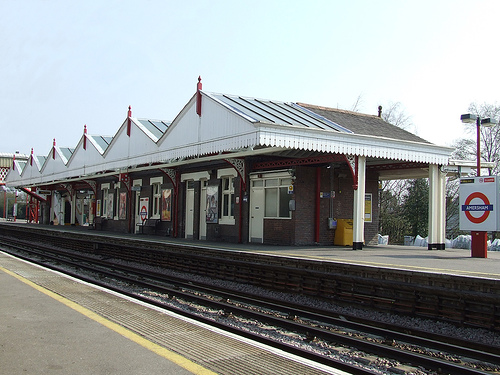 Photograph of Amersham Station Platforms.